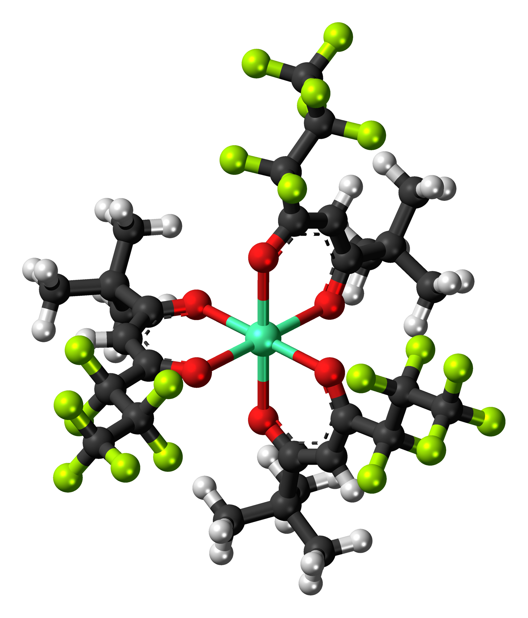 Ball-and-stick model of the EuFOD complex, a shift reagent in NMR spectroscopy. Colour code: Carbon, C: black Hydrogen, H: white Oxygen, O: red Yellow-green: Fluorine, F Europium, Eu: aqua